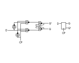 D-type multivibrator